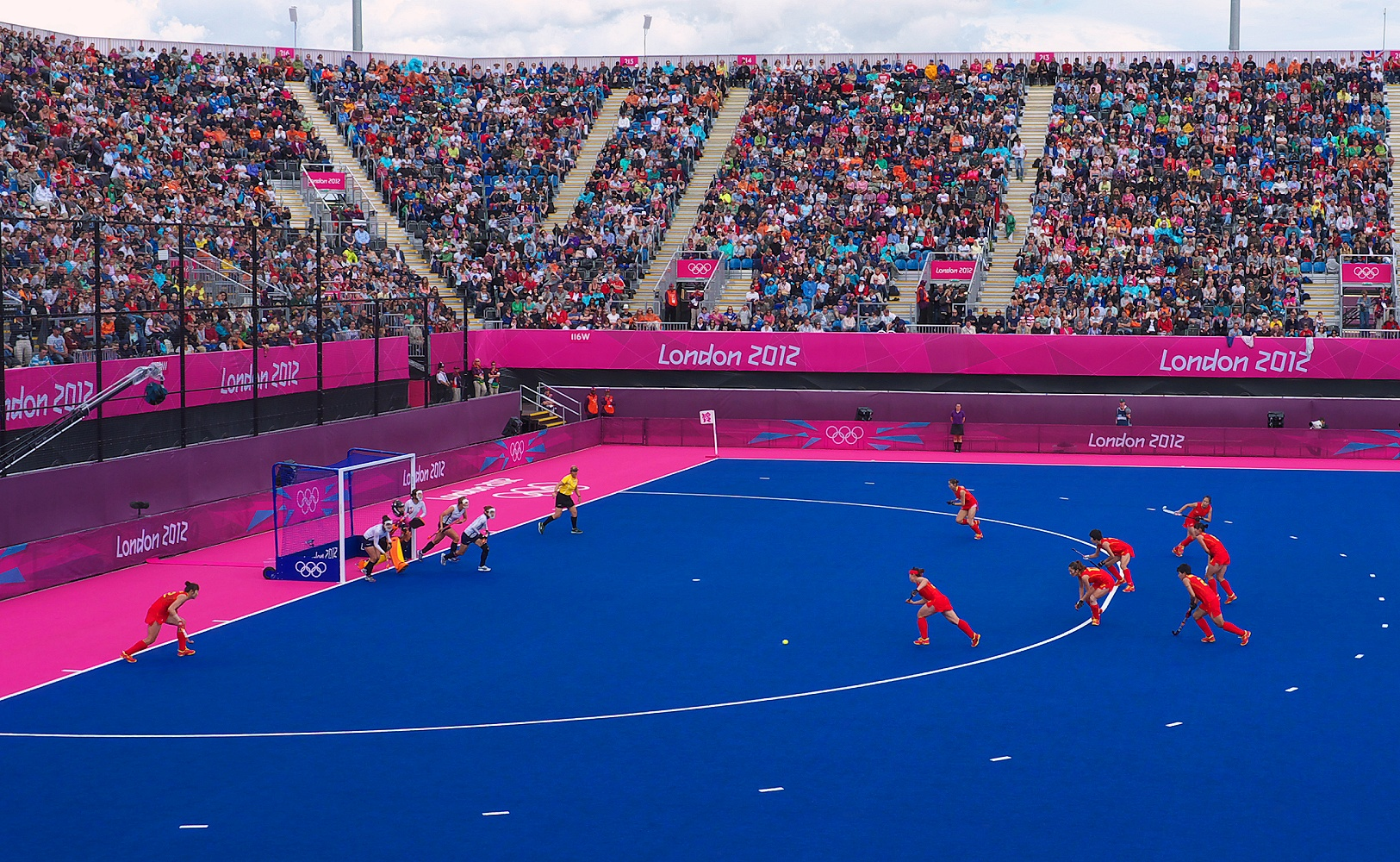 Women's Hockey at the London Olympics Riverside Arena on Sunday 22 July 2012, the match: China (in red) vs Korea (white and blue). Penalty corner for China.